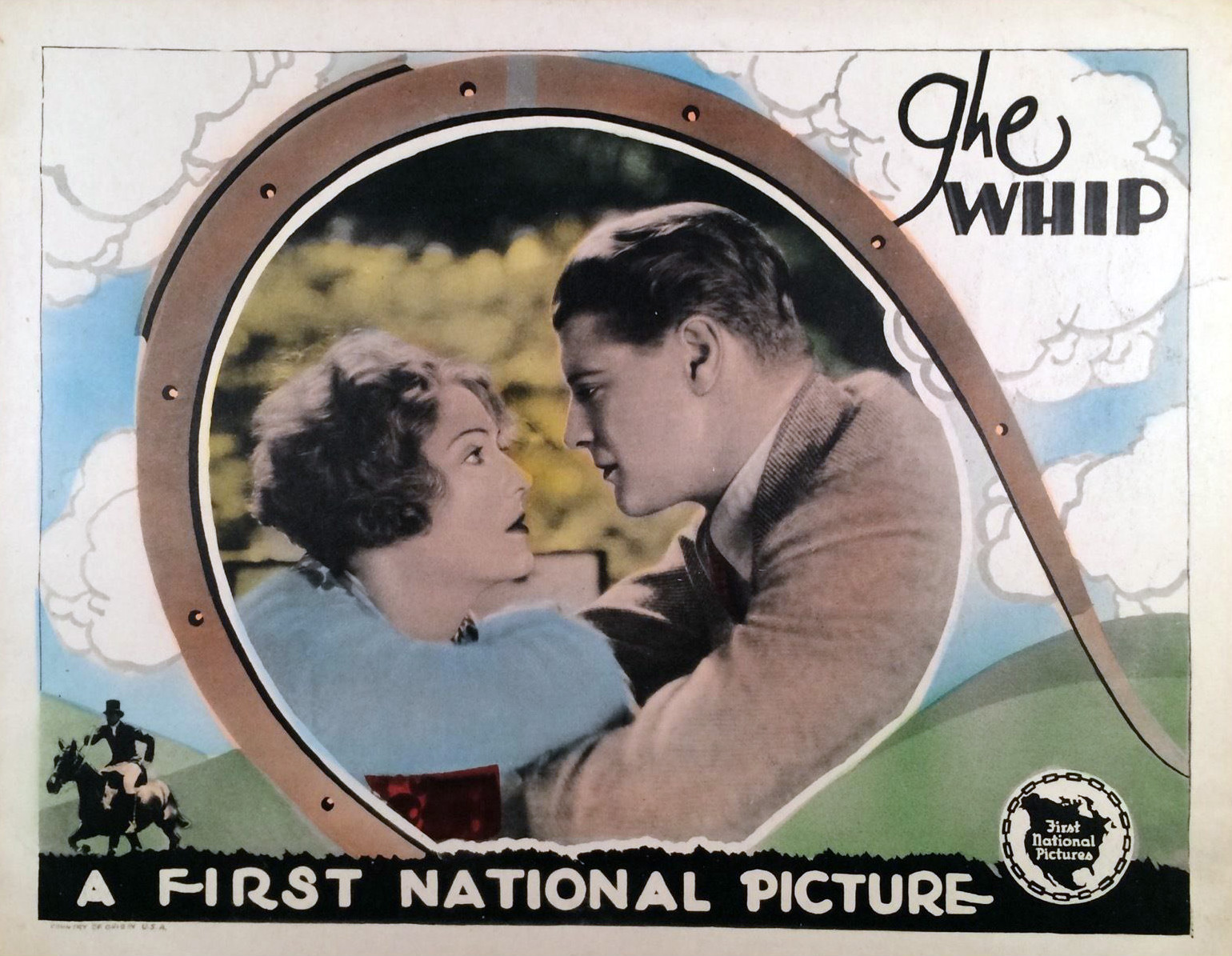 Lobby card for the American drama film The Whip (1928).